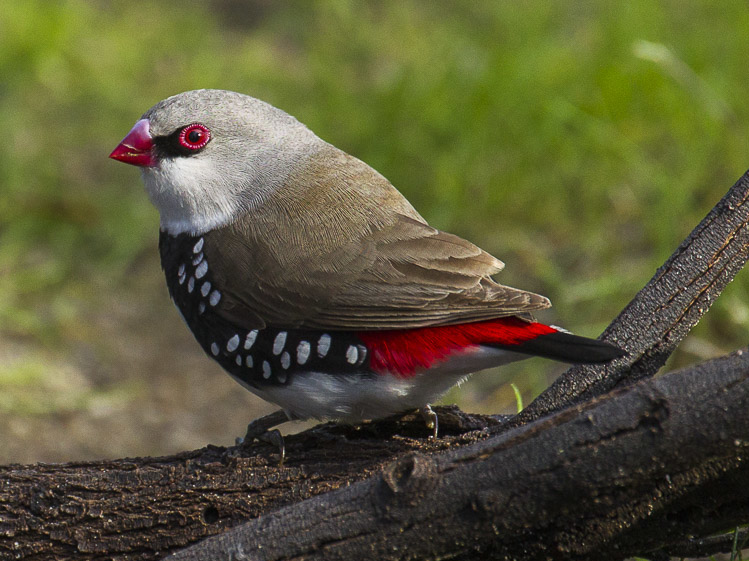 Diamond Firetail - Little Desert NP - Victoria_S4E4635